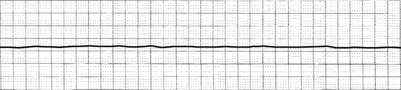 A self-made image based on the Wikipedia EKG picture for Ventricular Fibrillation. For use on Asystole Wikipedia article.